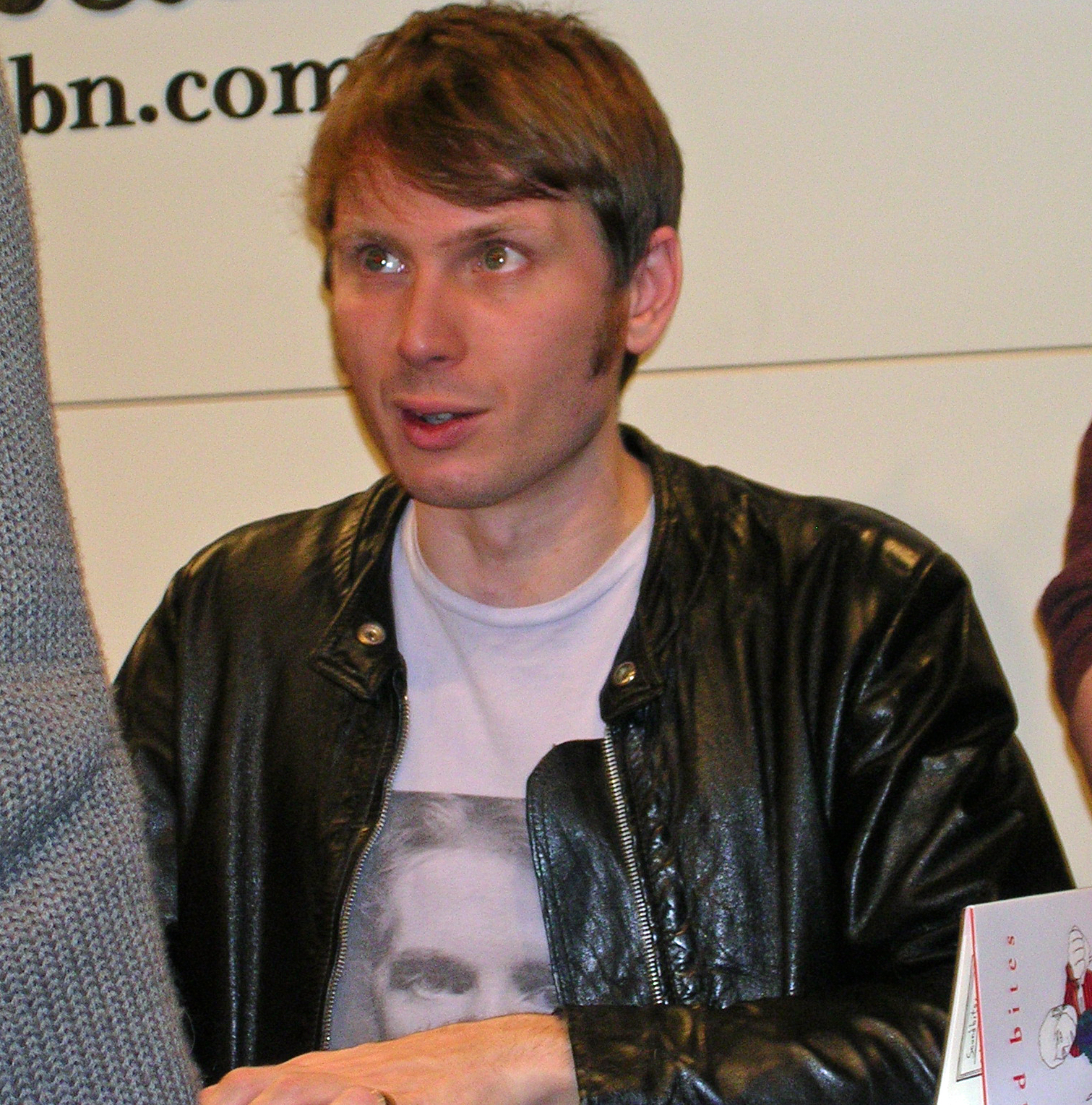 Alex Kapranos 3 by David Shankbone